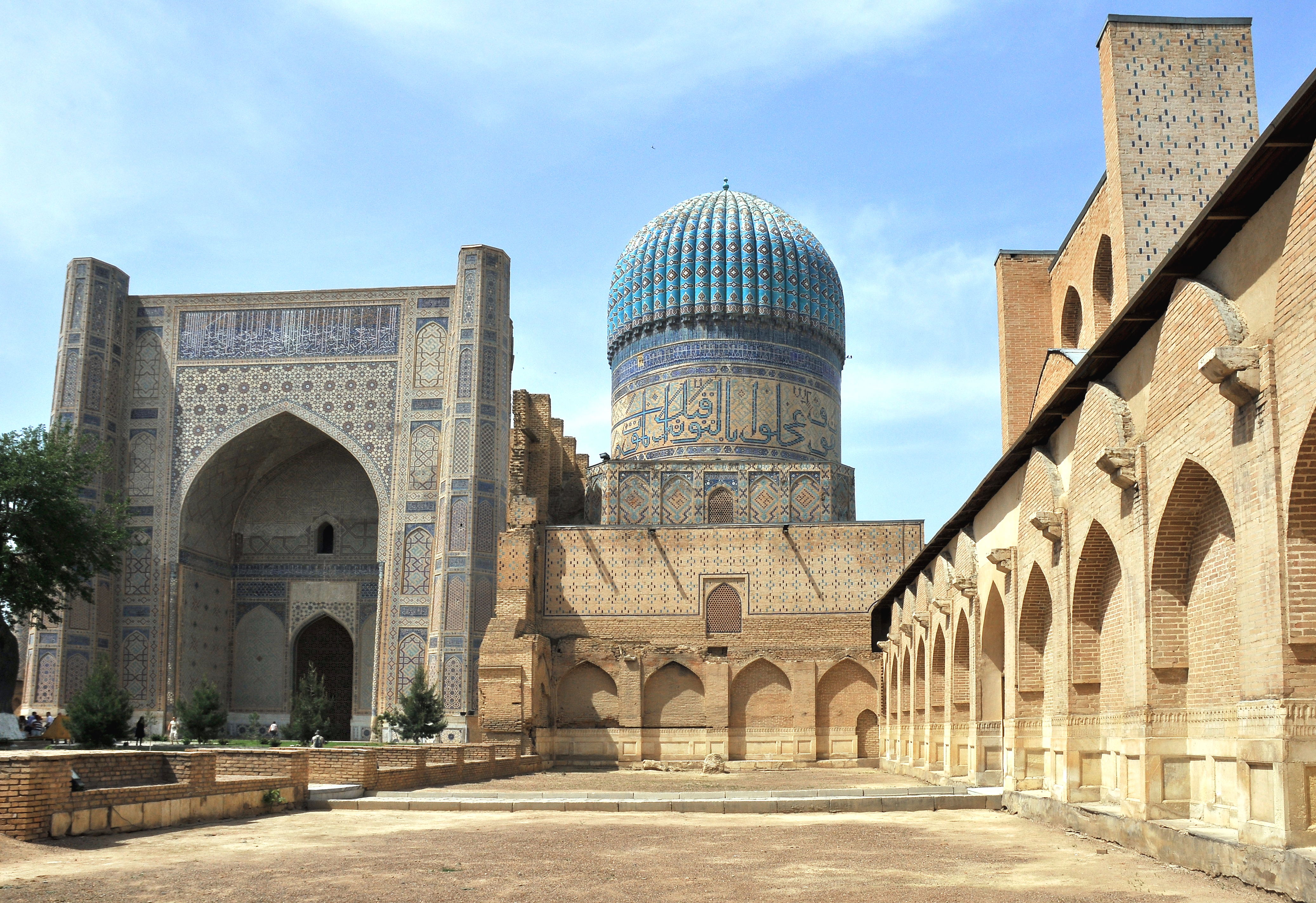 Bibi-Khanym mosque cortyard. Samarkand, Uzbekistan